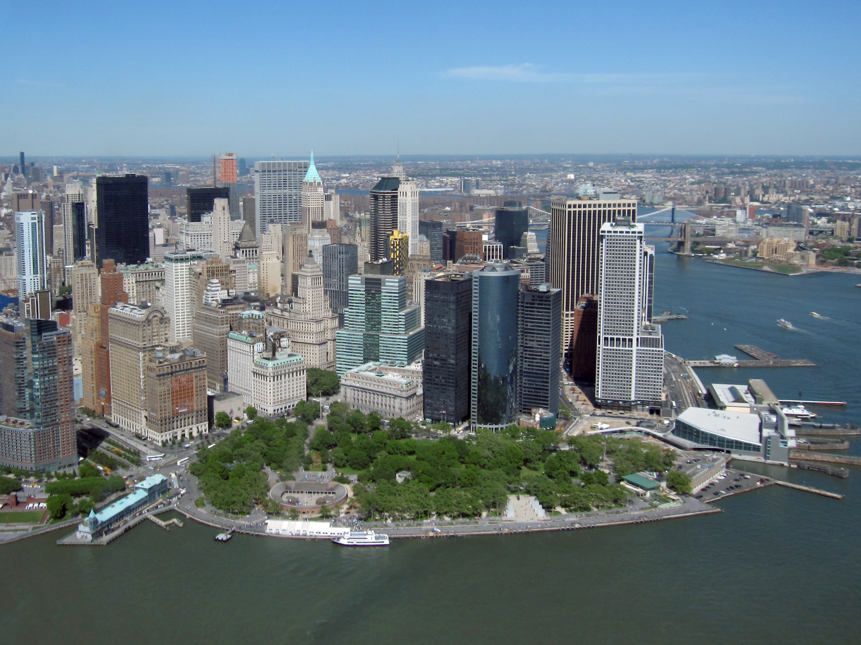 Aerial view of Battery Park and Financial District.